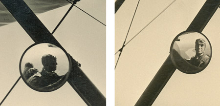 Cap I class engineer Tadija Sondermajer flying from Paris to Bombay then Belgrade 1927